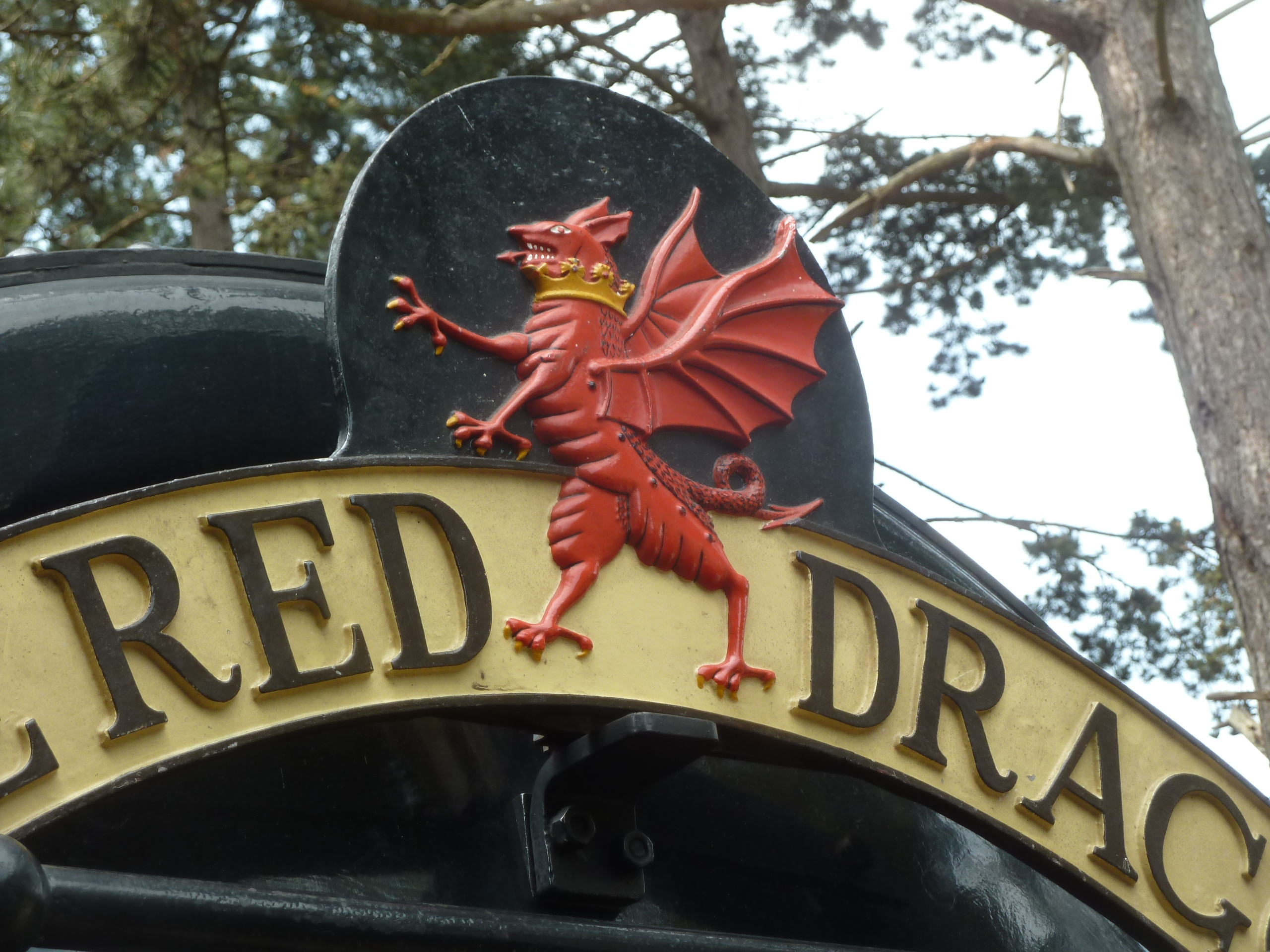 Train headboard of The Red Dragon Taken at the Gloucestershire Warwickshire Railway steam weekend. The loco is 92214 Standard class 9F